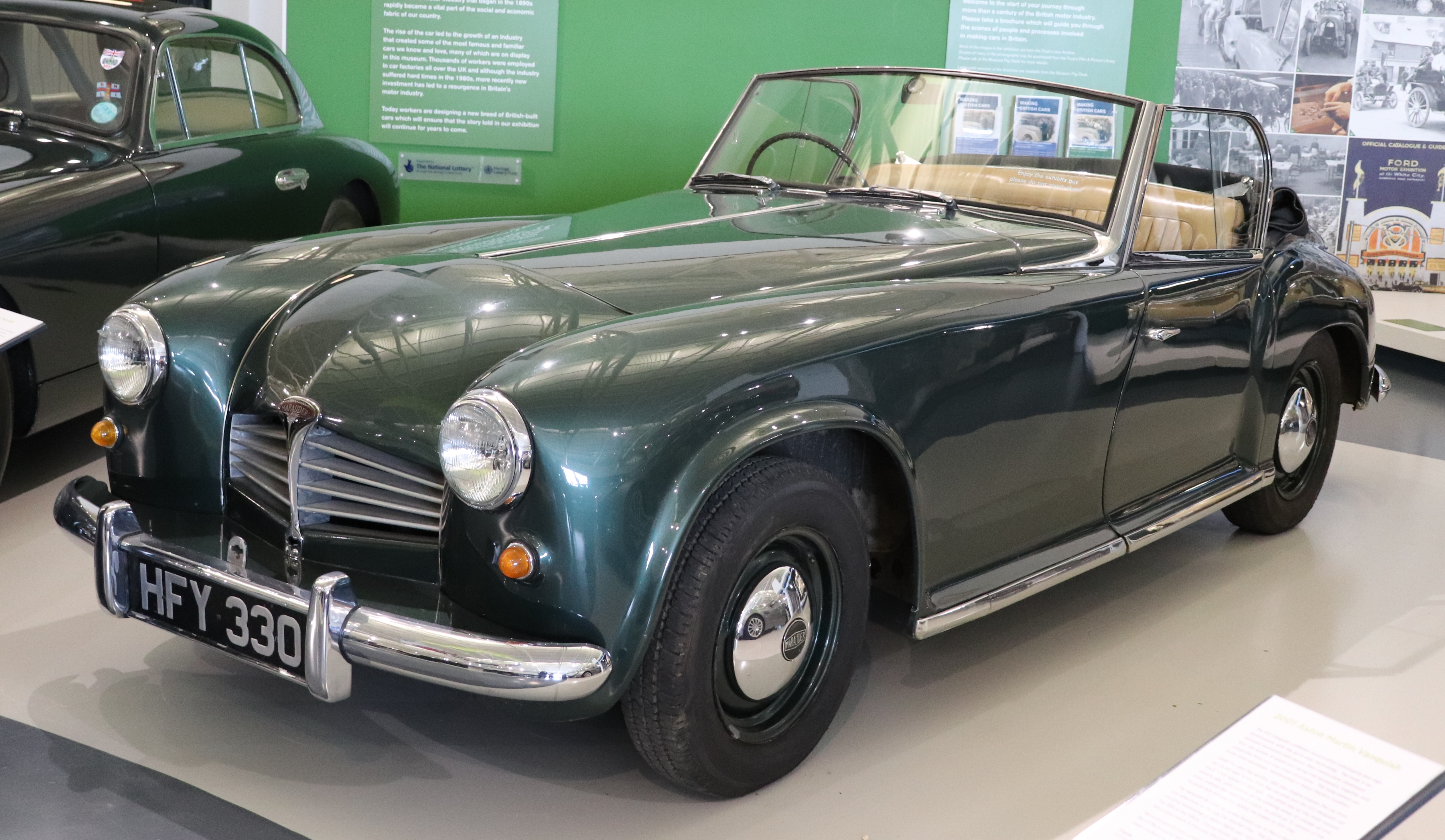 1951 Rover Marauder 2.1 Front Taken at the British Motor Museum, Gaydon